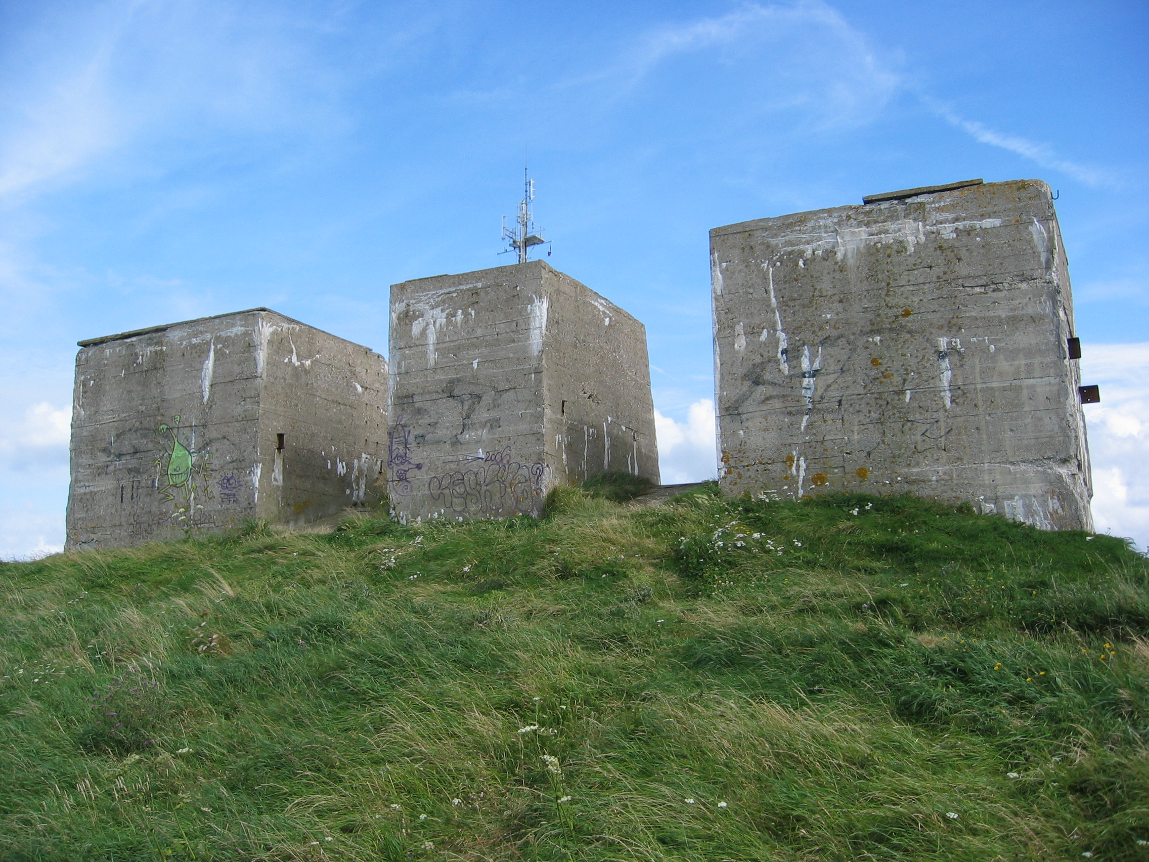 Foundations for the FuMG 41/42 "Mammut" radar (Marineregelbau V 143) at Cap Fagnet, Fécamp, Normandie, France. The radar was actually never installed.